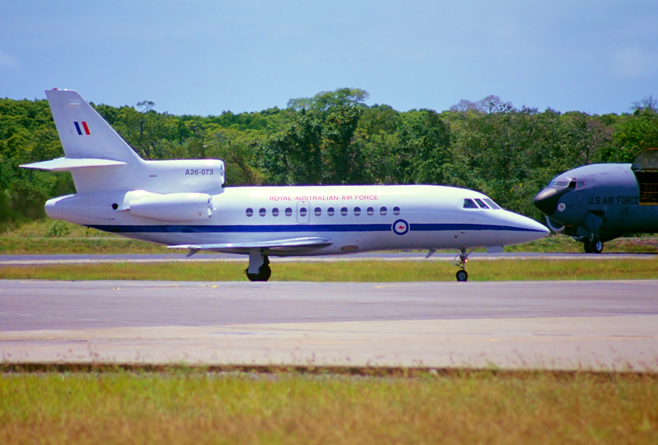 75at - Royal Australian Air Force Dassault Falcon 900; A26-073@CNS;06.10.1999